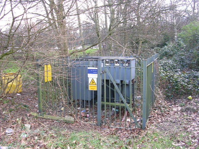 Substation 11,000V electricity substation on Yewtree Lane, Northenden.